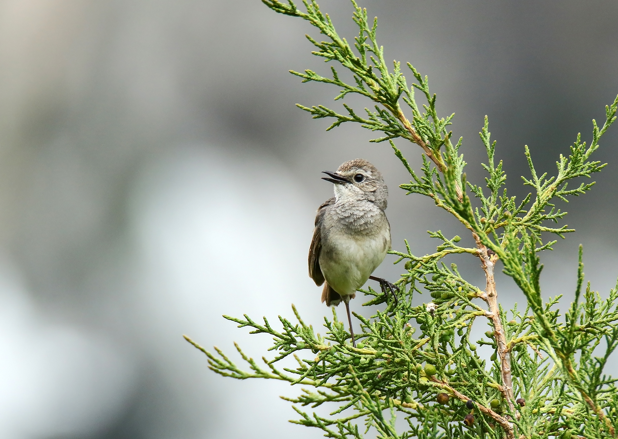 White-tailed Rubythroat (Luscinia pectoralis) captured at Shispare Ther, Hunza, Gilgit-Baltistan, Pakistan with Canon EOS 7D Mark II